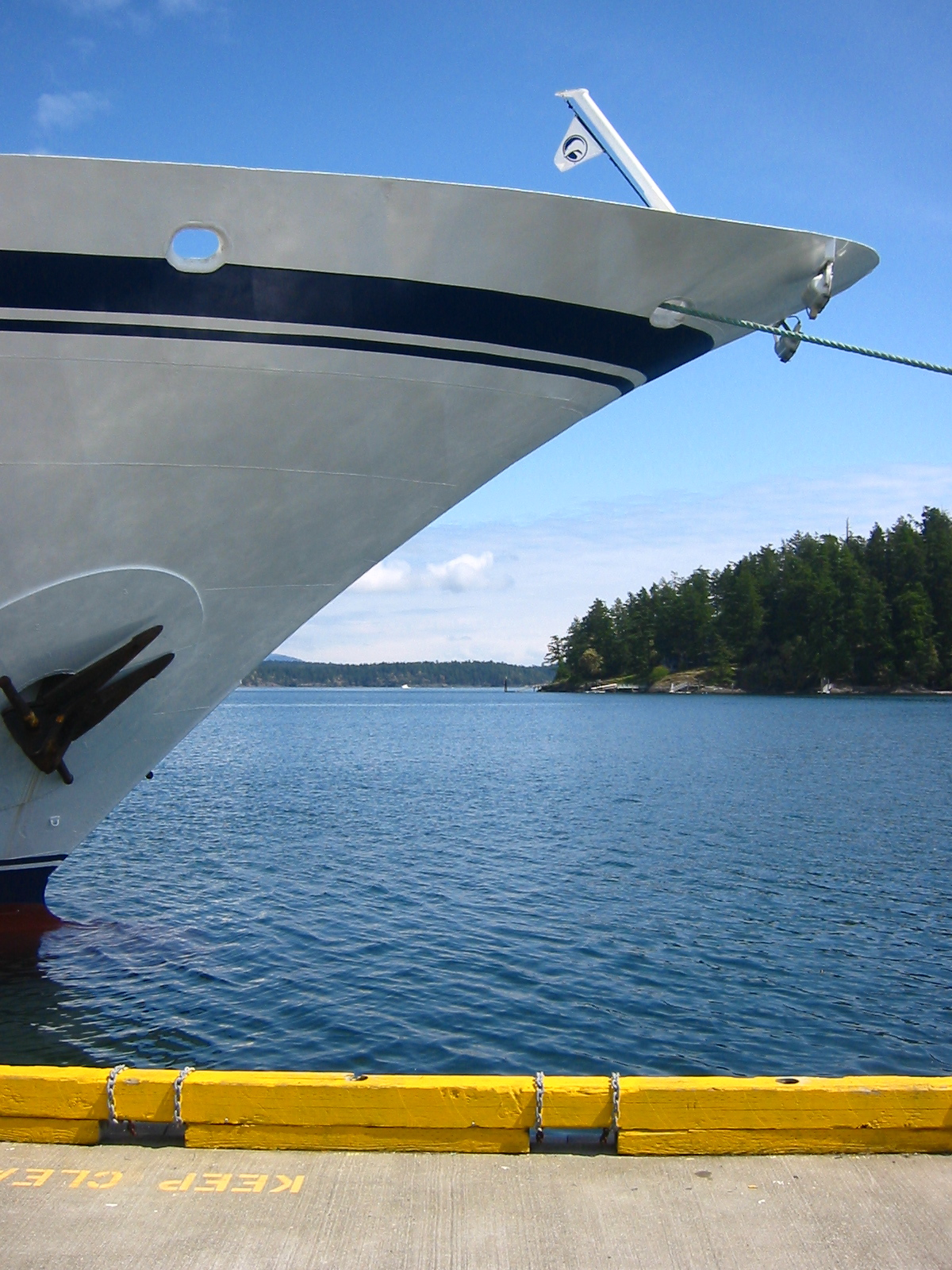 The bow of the Spirit Of Endeavour, docked at Friday Harbor, Washington.Bow